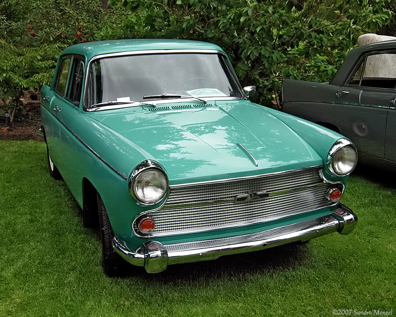 1962 Austin Cambridge Sedan Photo by Sandro Menzel